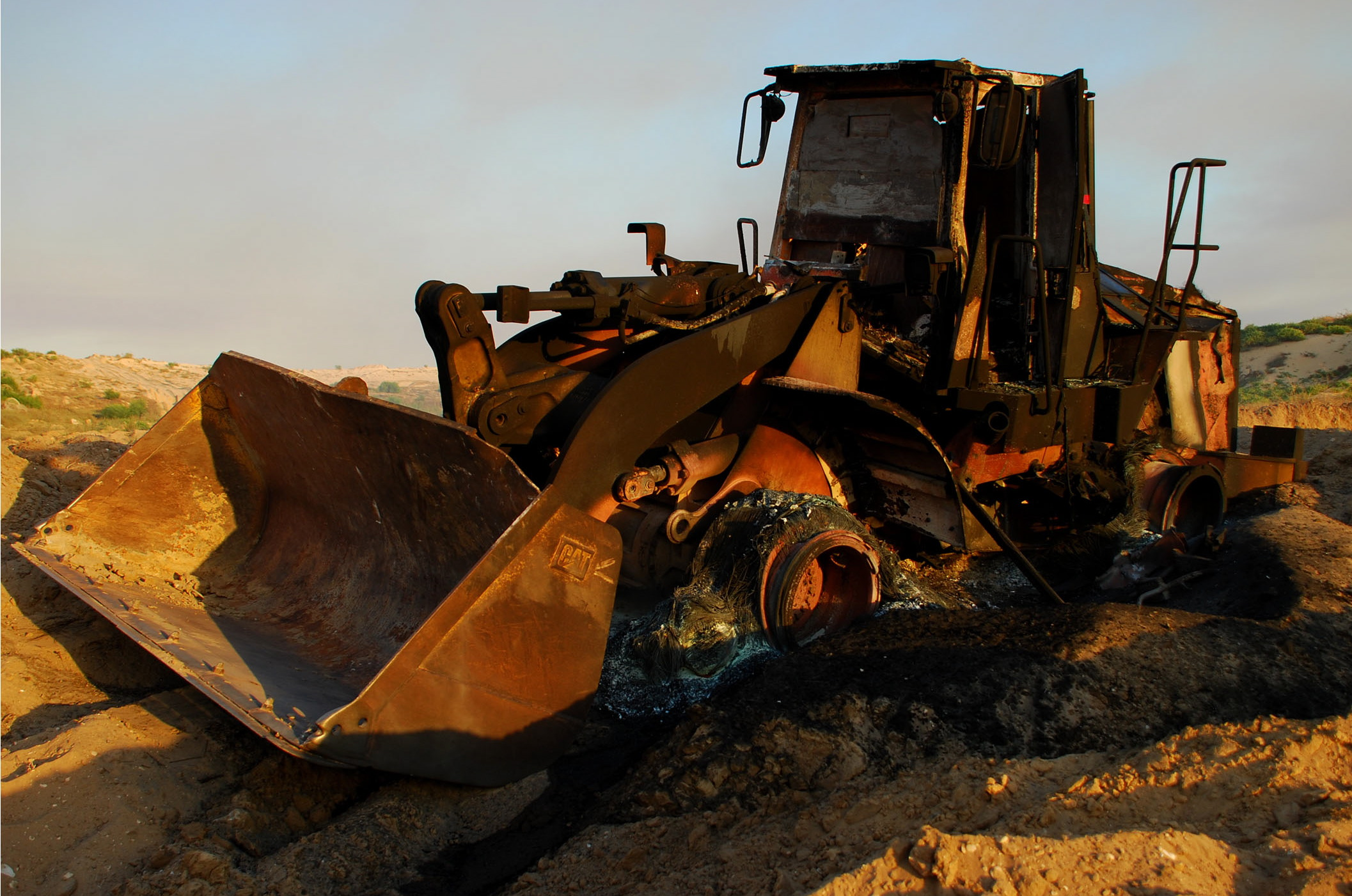 June 12, 2008 A terror attack was thwarted today when IDF soldiers fired at and stopped a suspicious Palestinian riding a bulldozer towards the security fence in the northern Gaza Strip.